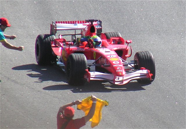 Formula One 2006 Rd.18 Interlagos: #6 Felipe Massa (Scuderia Ferrari), winning run with Flag of Brazil.